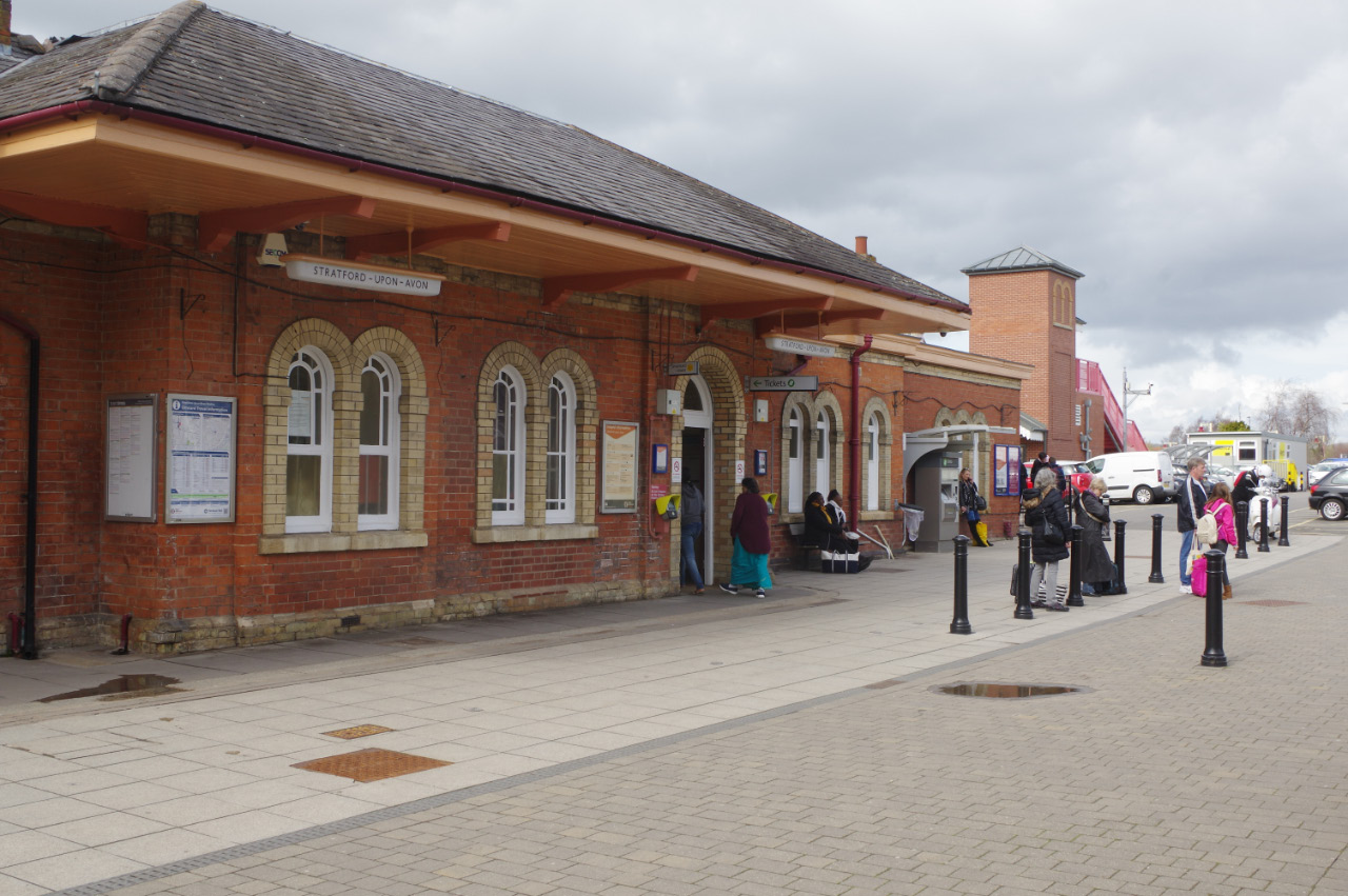 Stratford upon Avon Station This station was first opened in 1861 and was for many years one of two stations in the town - the other on the Stratford & Midland Junction line closed in 1952. Passenger services south of here ceased in 1969 leaving this station a terminus for trains from Birmingham and Leamington Spa.